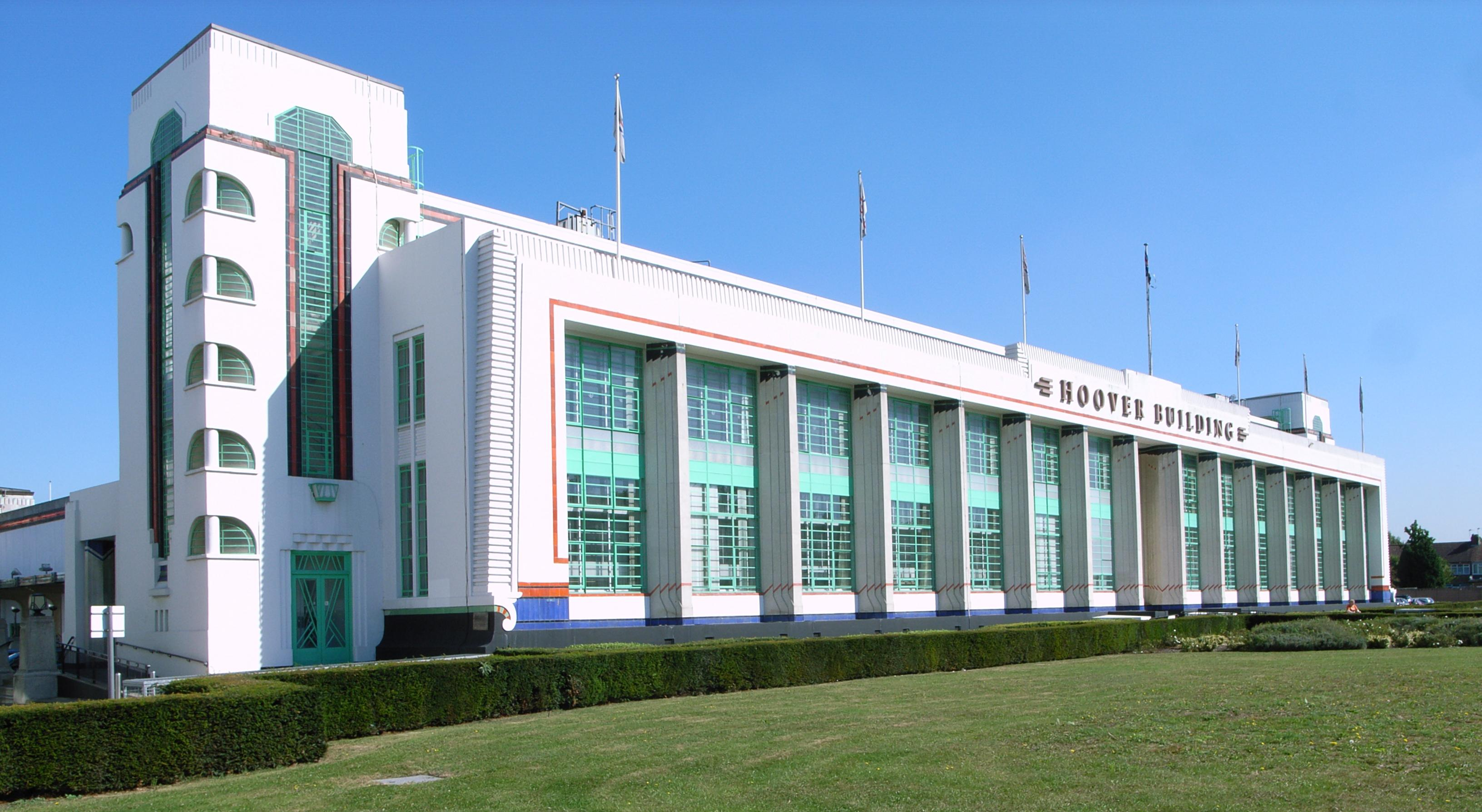 The Hoover Building (1931-1935) by Wallis Gilbert and Partners, Western Avenue, London.